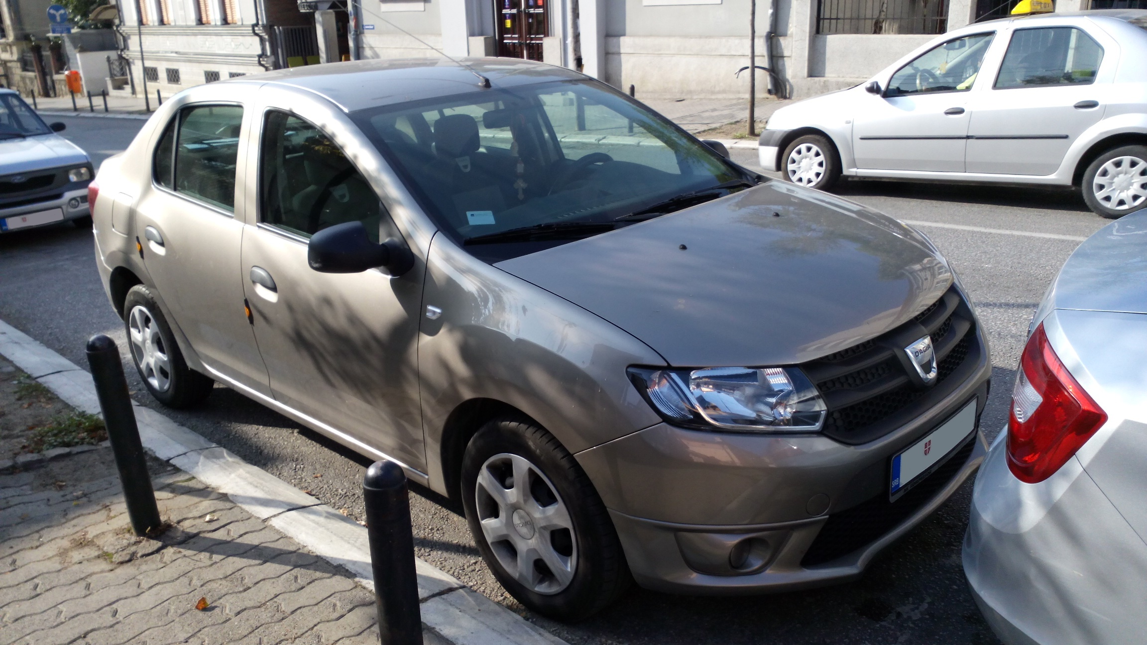 Dacia Logan II in Kragujevac, Serbia